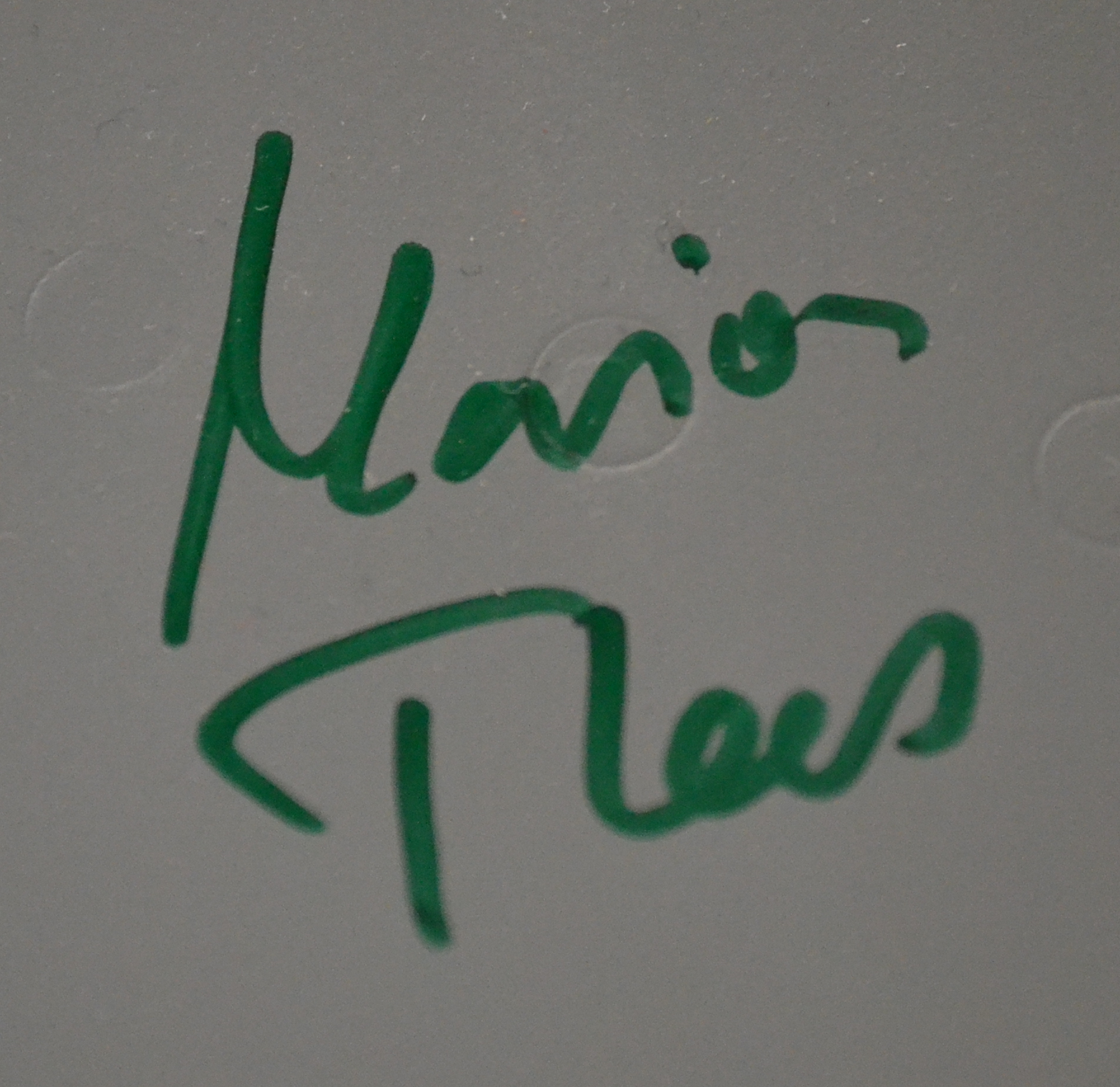 Outfitting the Olympic teams of Germany 2014; Media day January 20th 2014 at Military Airport Erding.